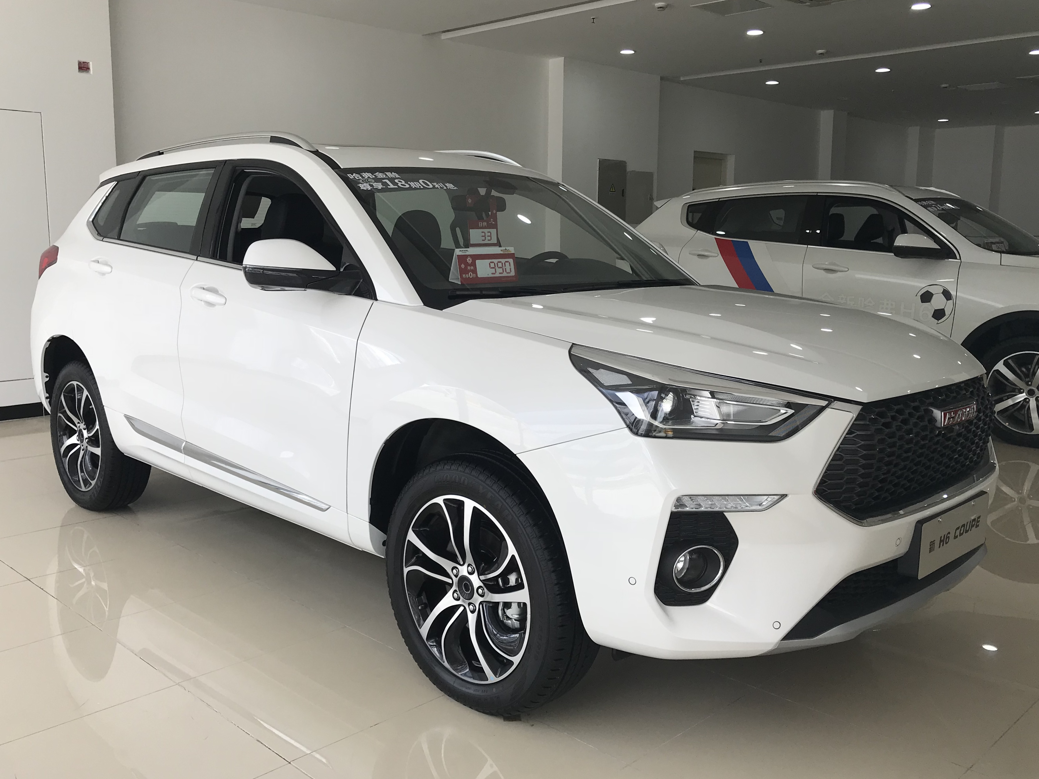 Haval H6 Coupe II Red Label